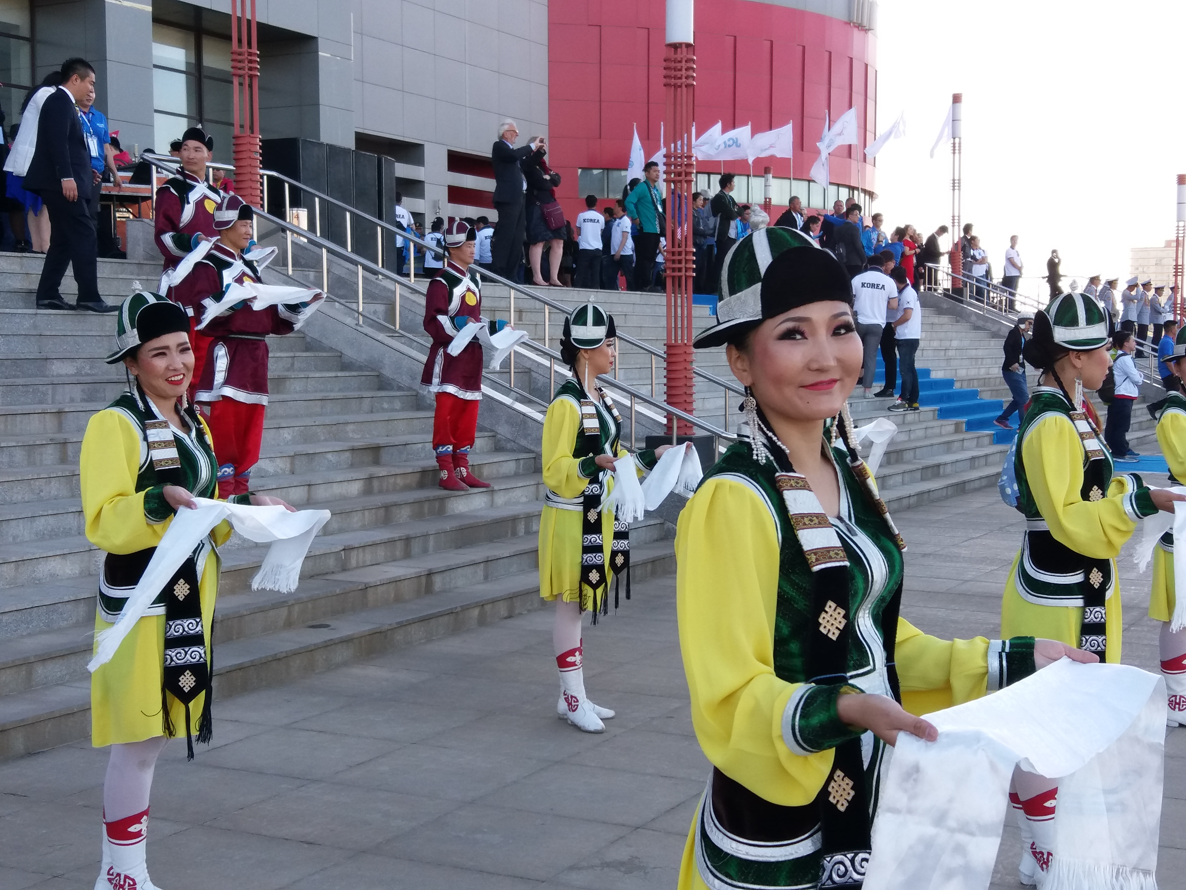 This photo has been taken in the country: Mongolia